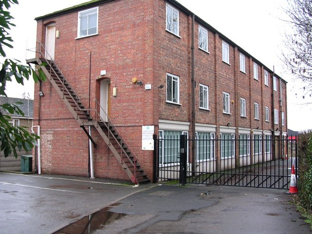 Former MG Car Company administration building at the end of Cemetery Road, Abingdon, Oxfordshire (formerly Berkshire). It is now part of an industrial estate. This view is looking west.